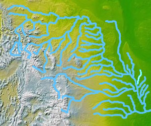 Little Sioux River © 2004 Matthew Trump